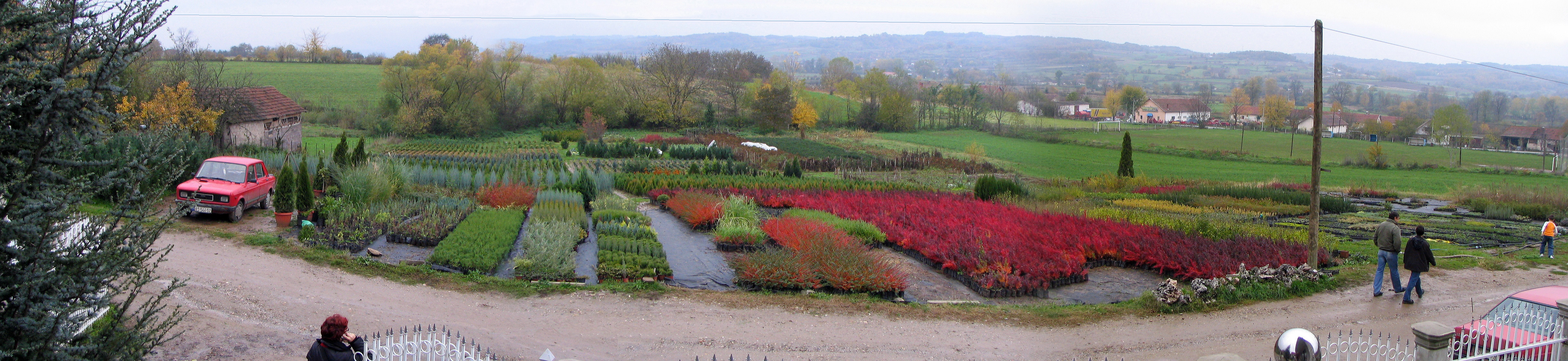 Serbian nursery Ilic Kaonik (containerized plants)photo: Mihailo Grbić